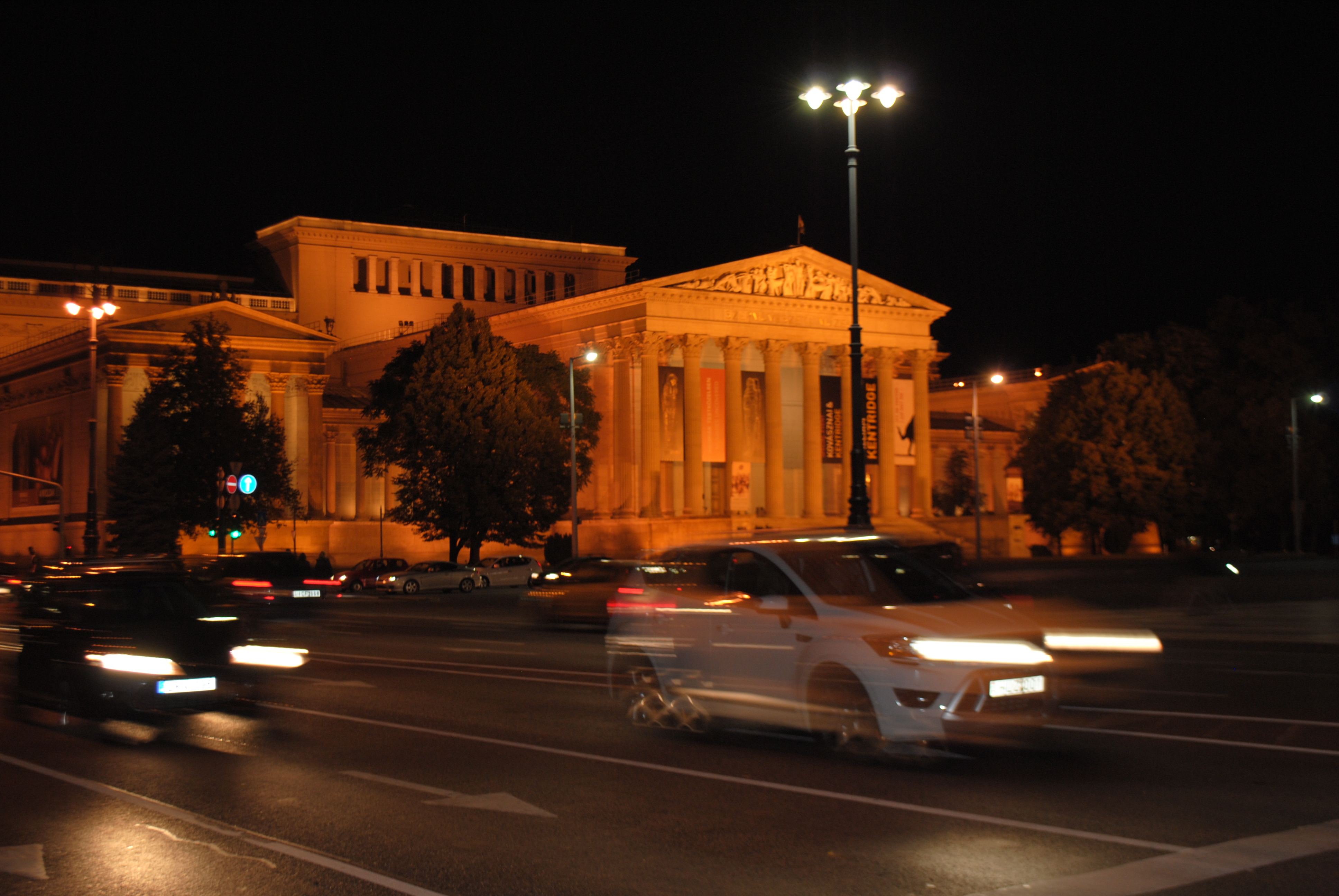 Museum of Fine Arts at night.